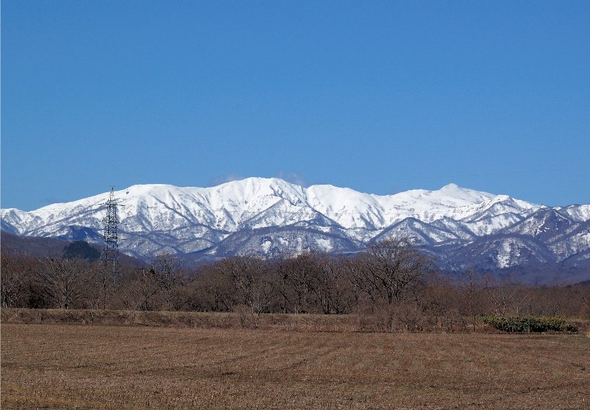 Mount Maesengen(left) and Mount Daisengen (right) seen from EbN, in Hokkaido, Japan. 前千軒岳 = Maesengen-dake = Mount Maesengen 大千軒岳 = Daisengen-dake = Mount Daisengen